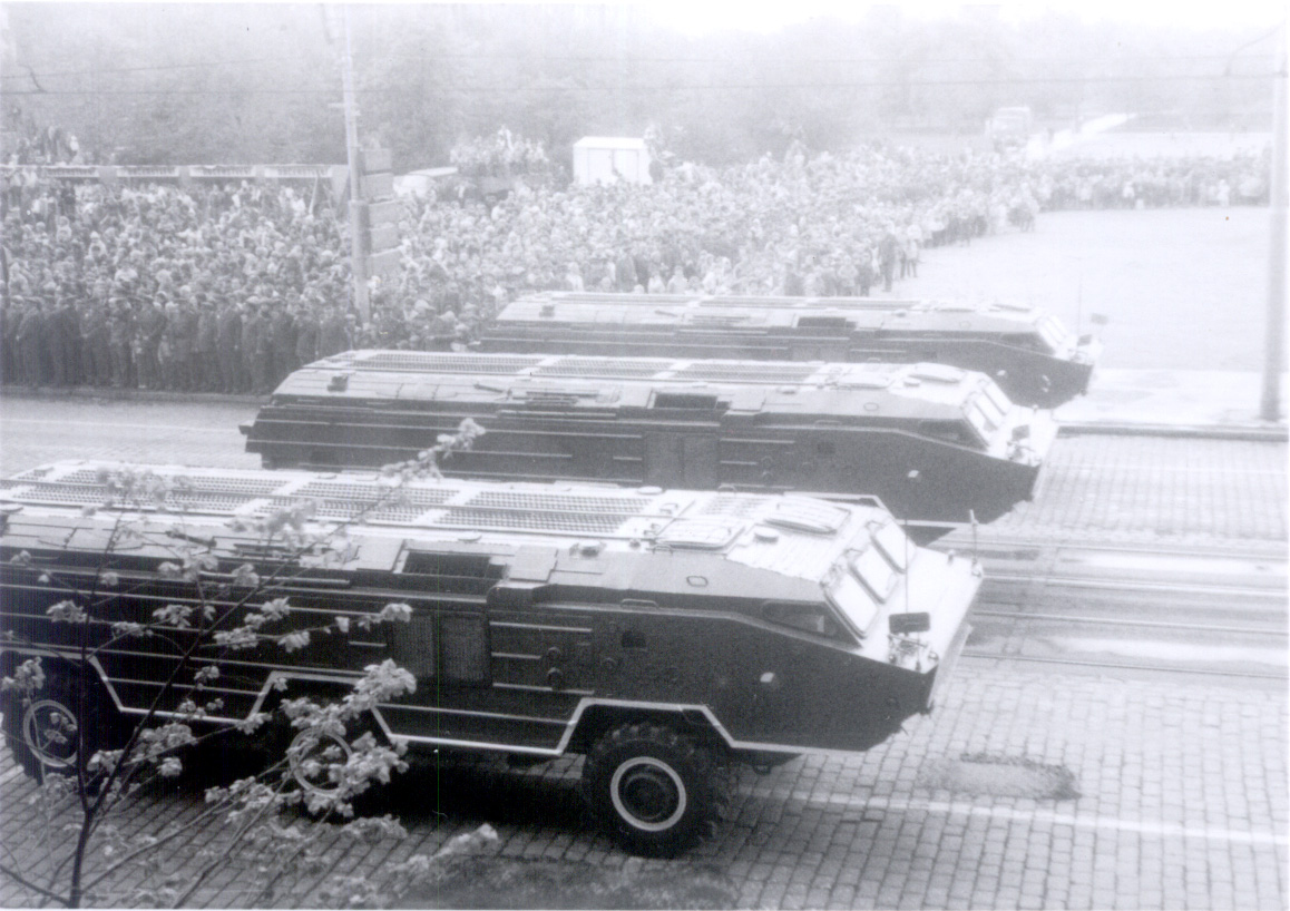 Czechoslovak military parade in Prague, 9th of May, 1985.